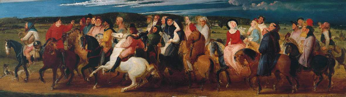 Thomas Stothard Canterbury Pilgrims 318 x 952 mm Artist Thomas Stothard (1755‑1834) Title The Pilgrimage to Canterbury Date1806-7 Medium Oil paint on oak Dimensionssupport: 318 x 952 mm Collection Tate AcquisitionPurchased 1884